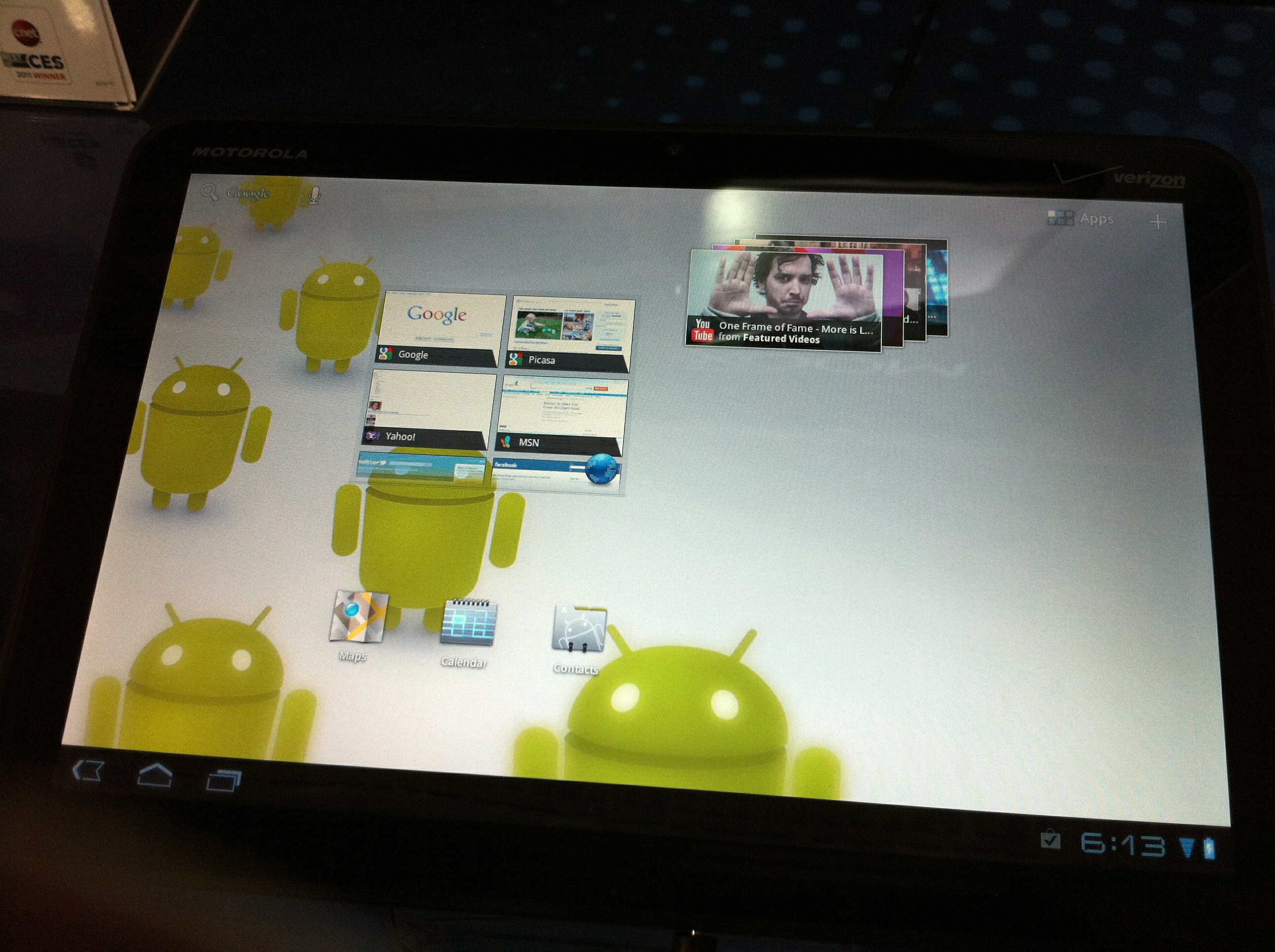 motorola xoom tablet